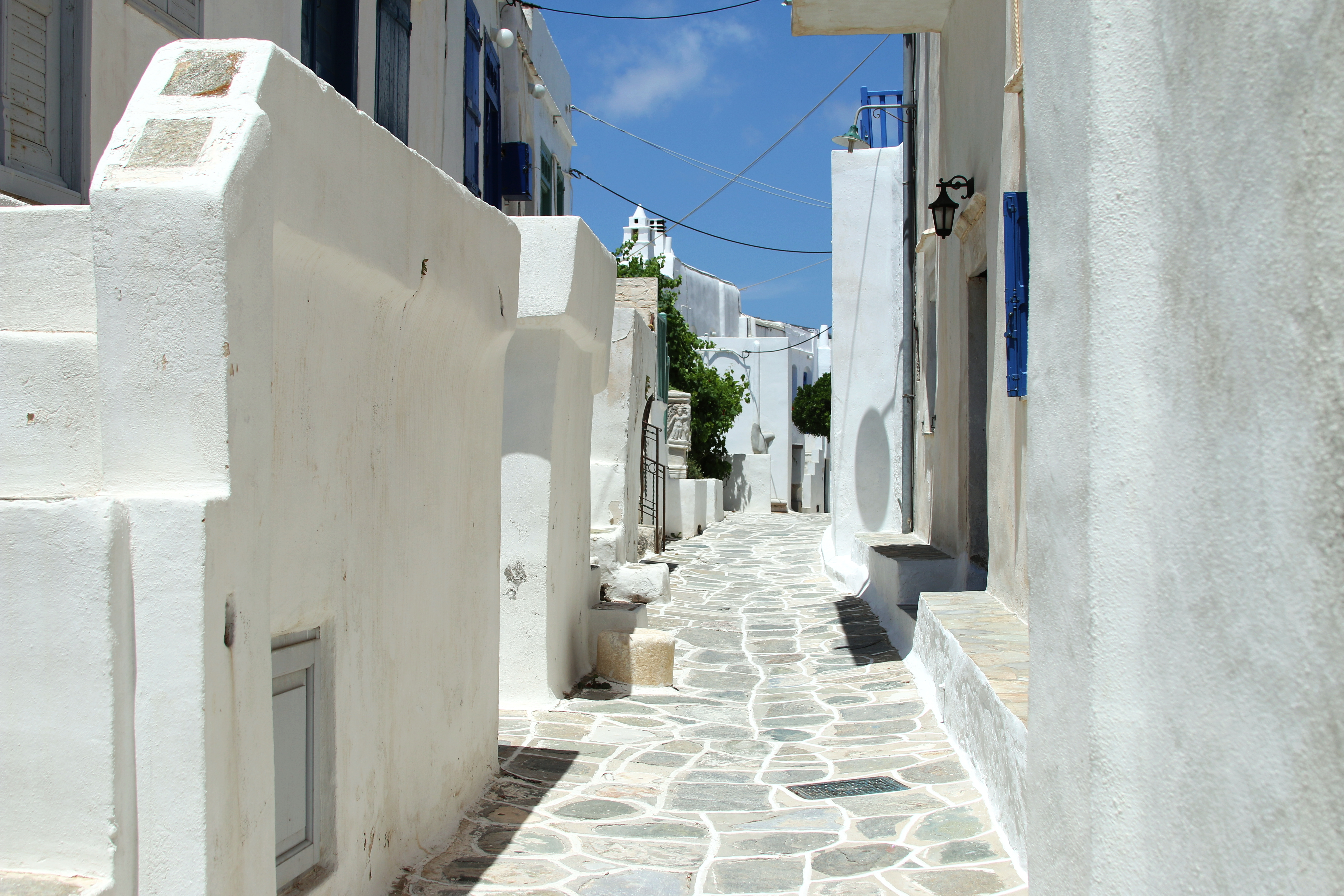 Kastro of Sifnos, the main street.